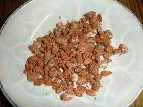 Trombidium is used as Traditional Medicines in India.